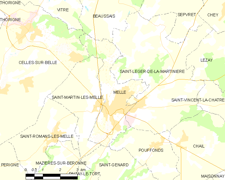 Map of French municipality Melle